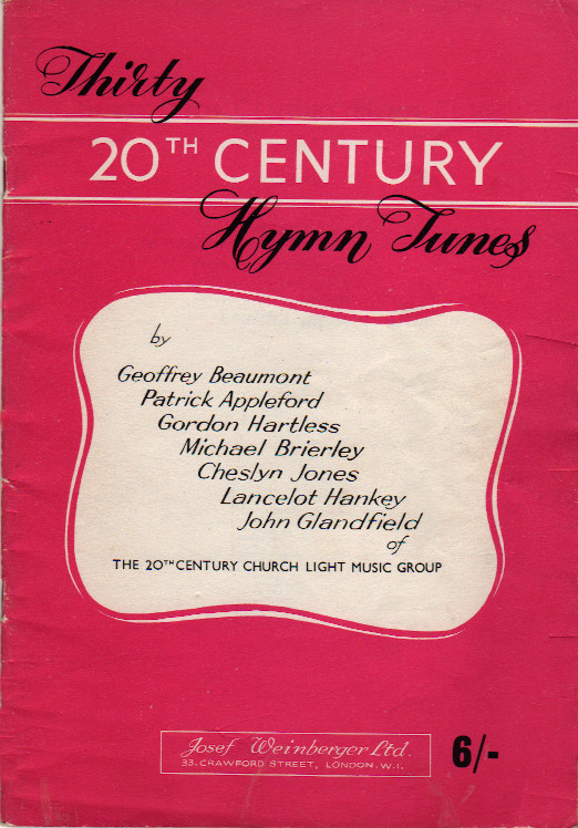 Front cover of one of the 20th Century Church Light Music Group's early publications.